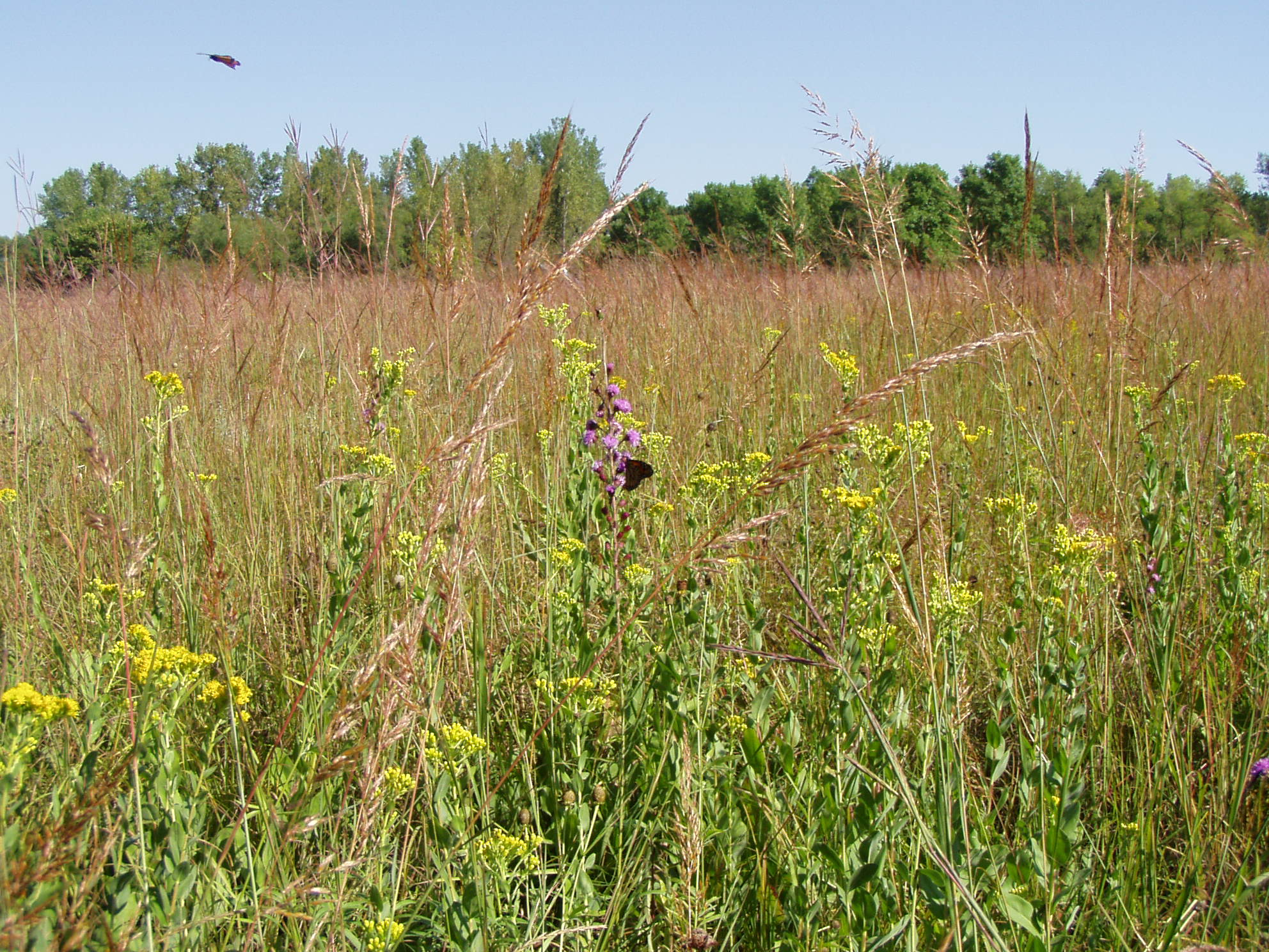 Monarch butterfly feeding in the restored prairie at Jay C. Hormel Nature Center.